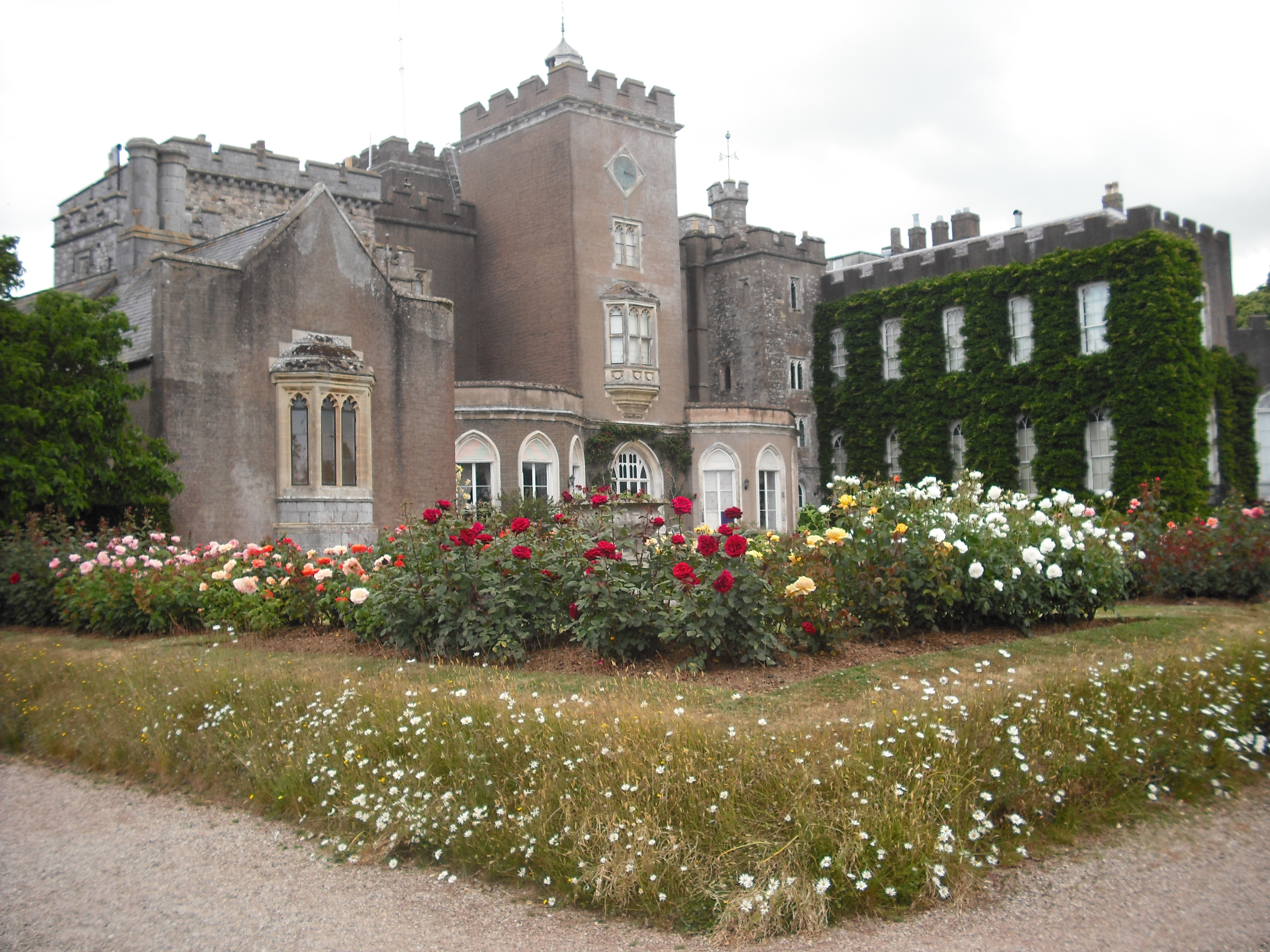 Powderham Castle from the Rose Garden, southeast in Devon, England.